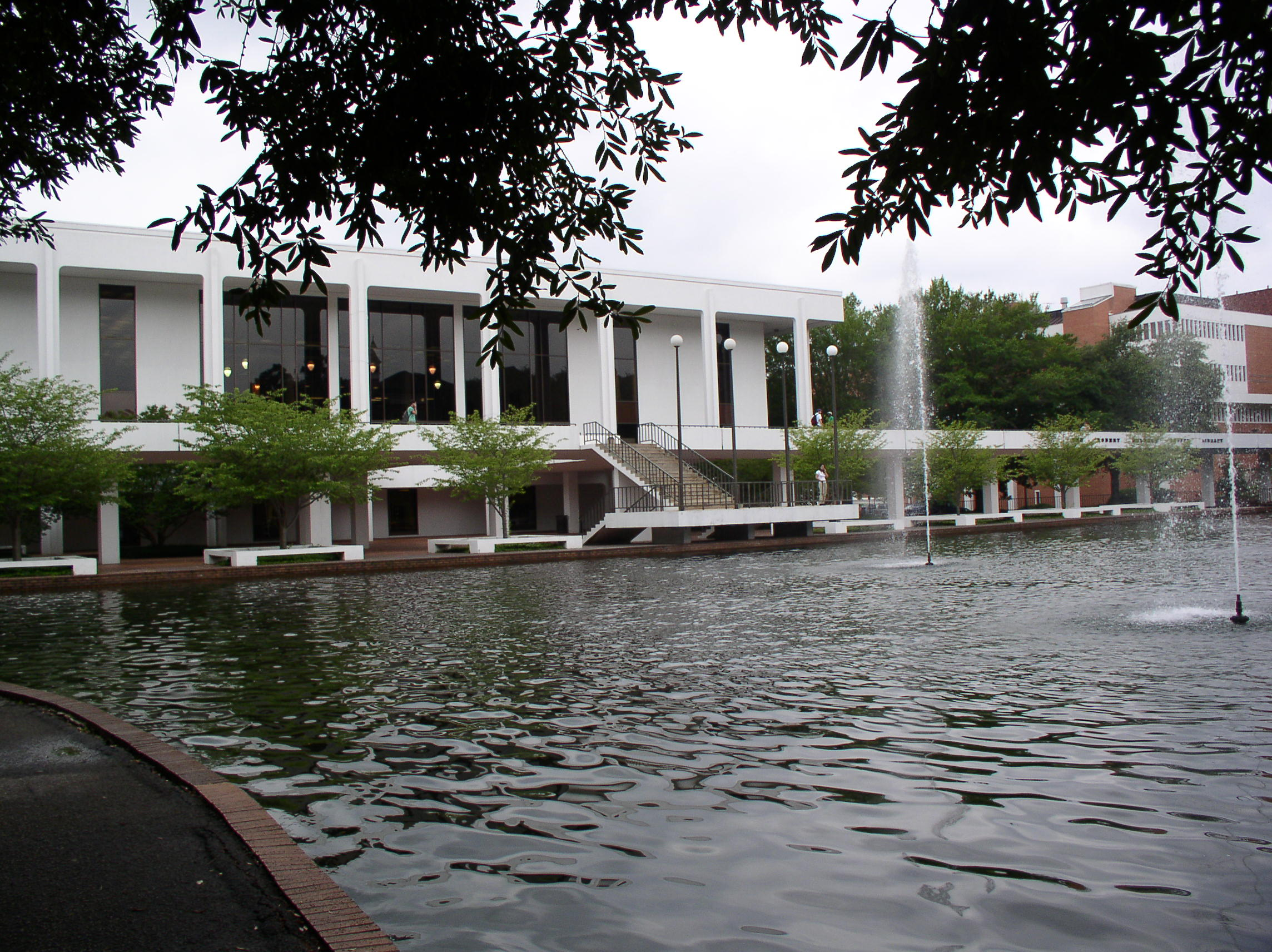 Cooper Library on the campus of Clemson University